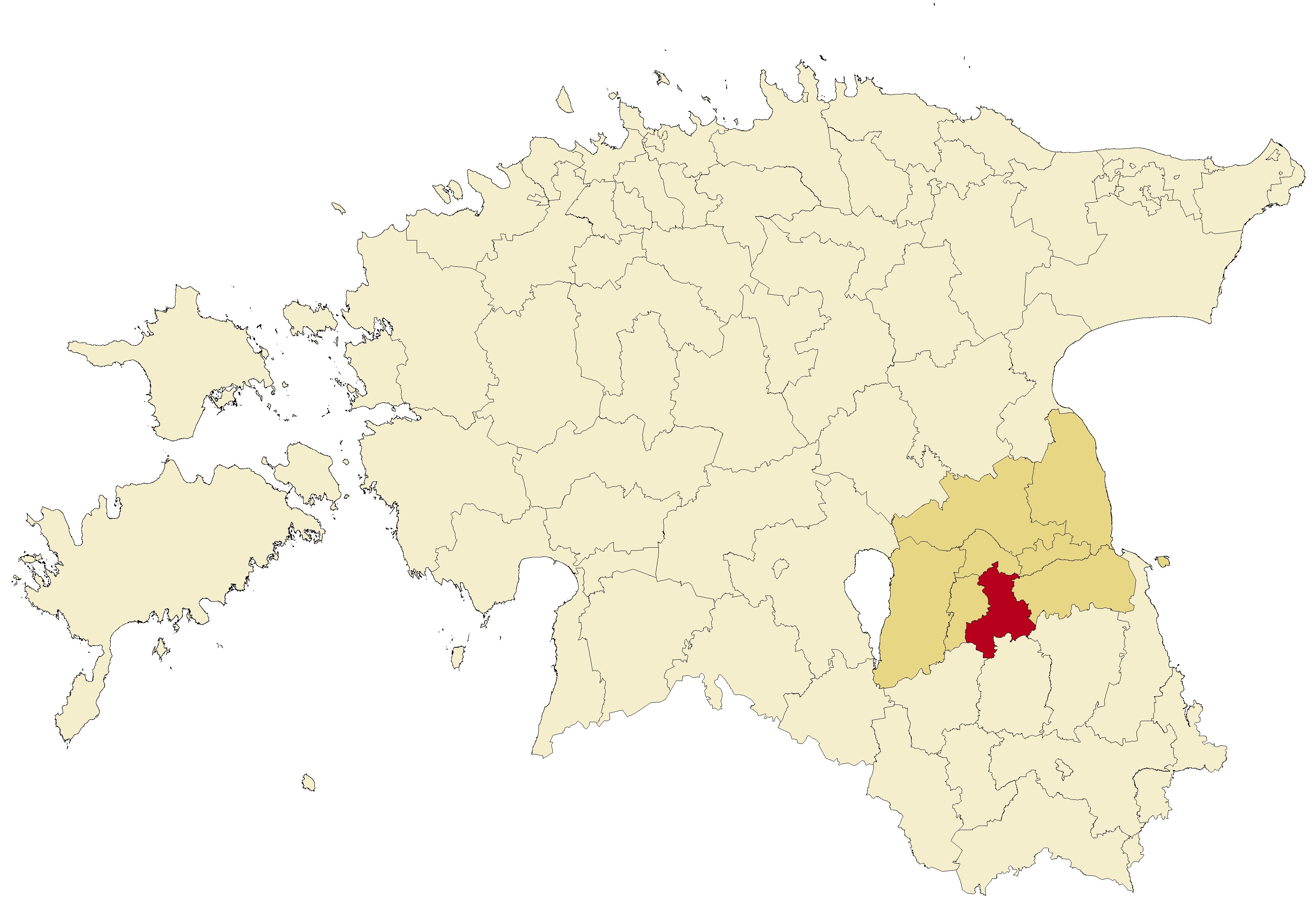 Location of Kambja Parish (red) within Tartu County (dark yellow) after the Administrative Reform of Estonia in 2017.